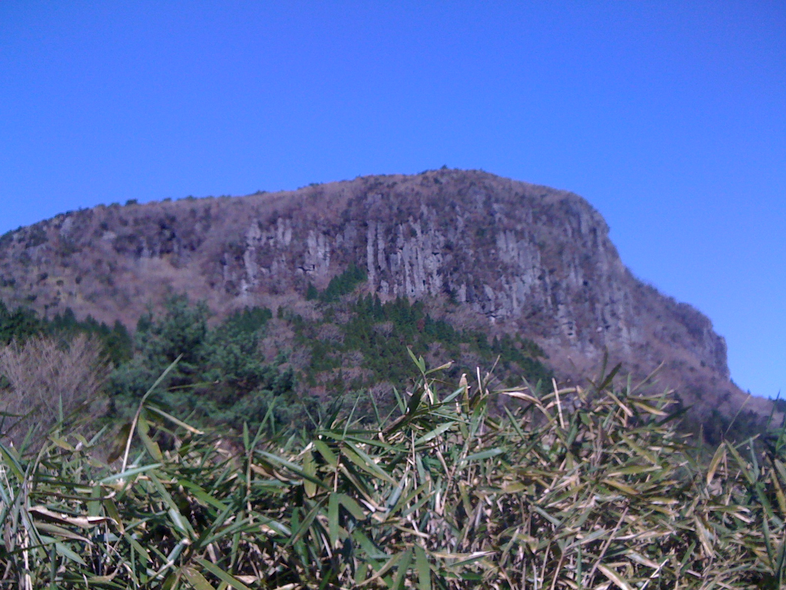 Mount Hane (Haneyama) in Oita Prefecture, Japan